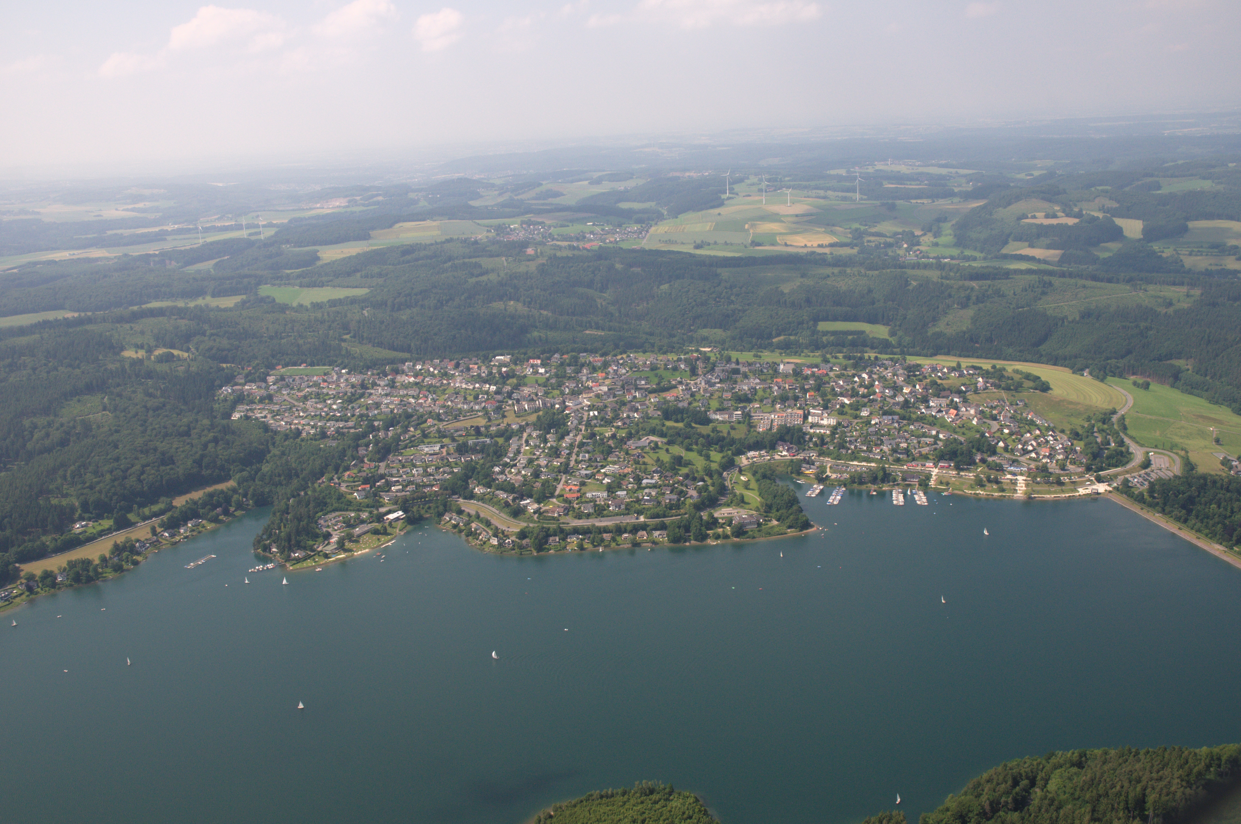 Fotoflug Sauerland-Ost: Sundern-Langscheid, Sorpesee. The making of this document was supported by the Community-Budget of Wikimedia Germany.